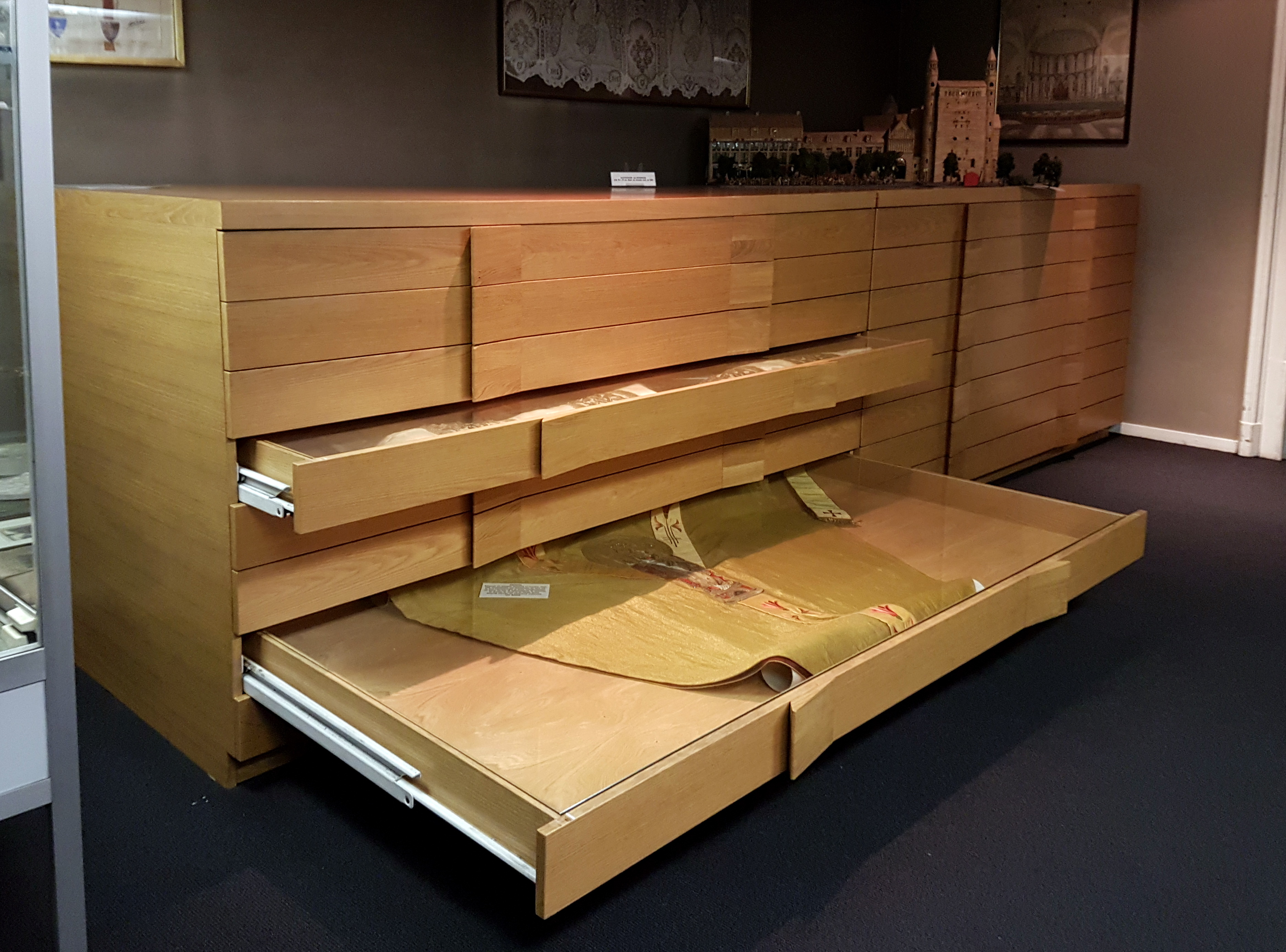 Two large chests of drawers containing the collection of liturgical vestments in the Treasury of the Basilica of Our lady in Maastricht, Netherlands.